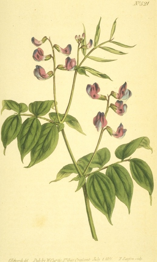 PLATE- Plate No. 521 Original Curtis Text 1 Click thumbnail for larger image -COMMON_NAMES-Early-flowering Orobus, Bitter-vetch, Spring Vetch -GENUS-Orobus -SPECIES-Orobus vernus -CLASS-Diadelphia -ORDER-Decandria -AUTHORITY-Linnaeus -MODERN_GENUS-Lathyrus -MODERN_SPECIES-Lathyrus vernus -MODERN_FAMILY-Leguminosae -PLANT_TYPE-perennial -COLOR-red-blue turning green-blue -SEASON- winter - spring -NATIVE_REGION-Europe -ZONE-4 -SOURCE-The Botanical Magazine -VOLUME-15 -PUB_DATE-1801 -REISSUED- __ -EDITOR-John Sims -ARTIST-S. Edwards, Sansum -NALPCD-Disc 0413 IMG0015.PCD